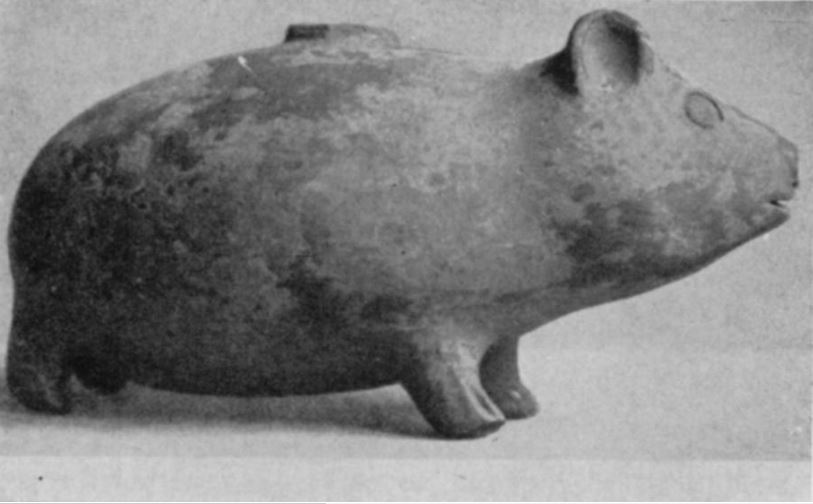 Pre-Inca ceramic guinea pig from Mochica culture (ca. 500–1000 AD)